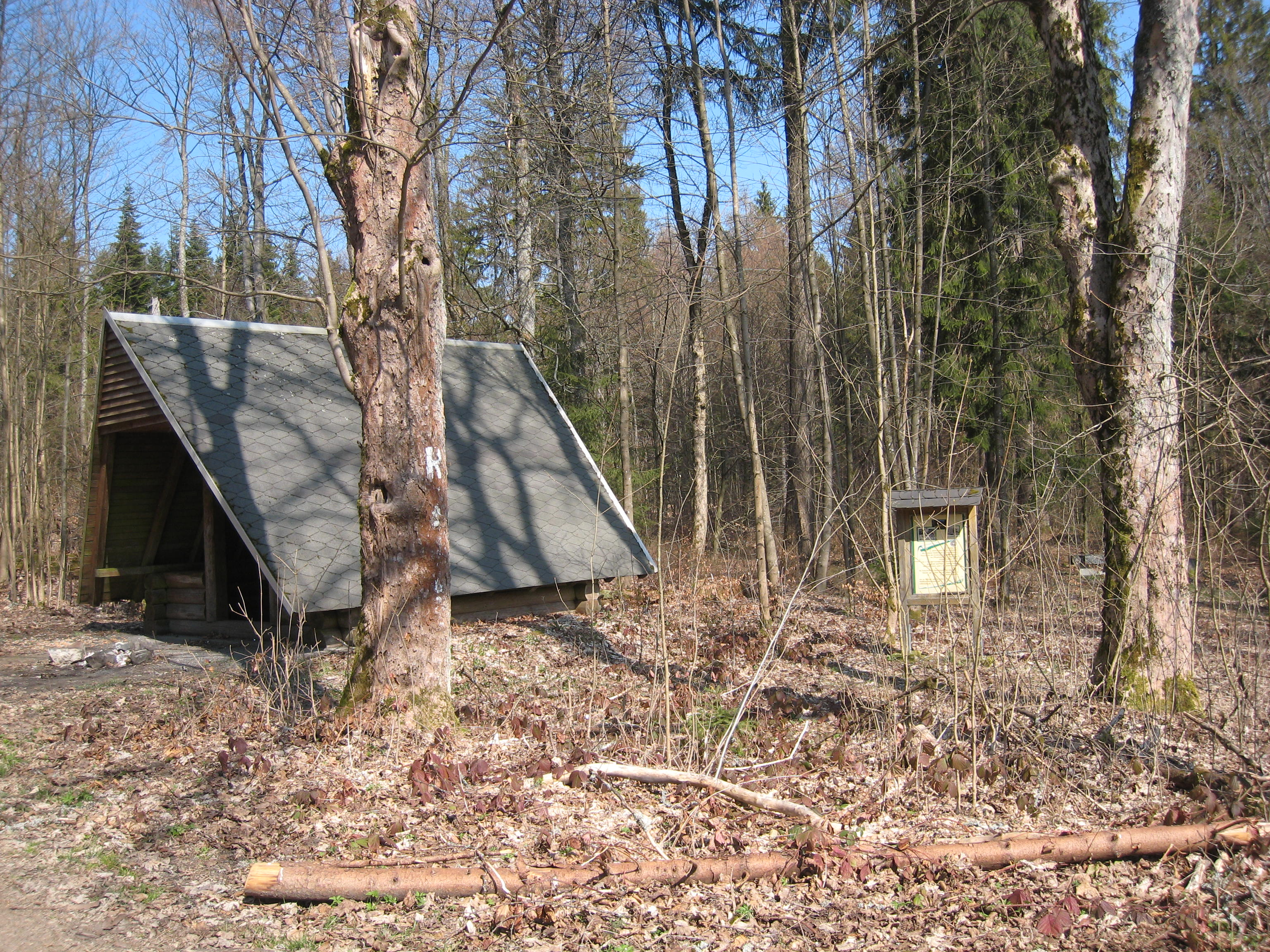 Forsthaus Weidmannsheil in Steinbach am Wald